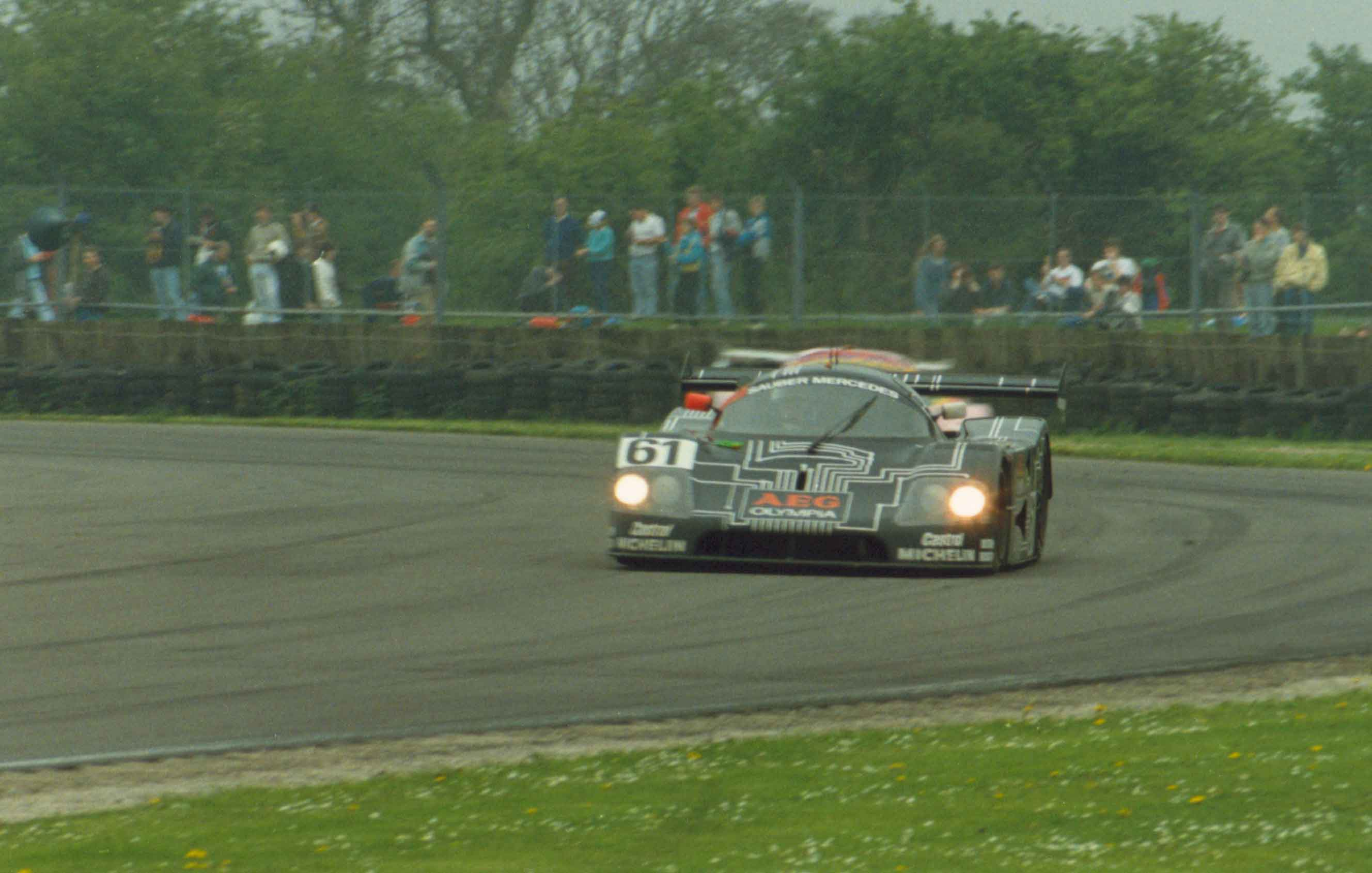 Sauber Mercedes C9, Silverstone 1000Kms, 8th May 1988